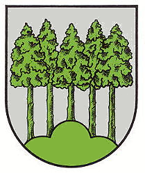 Coat of arms of Waldgrehweiler